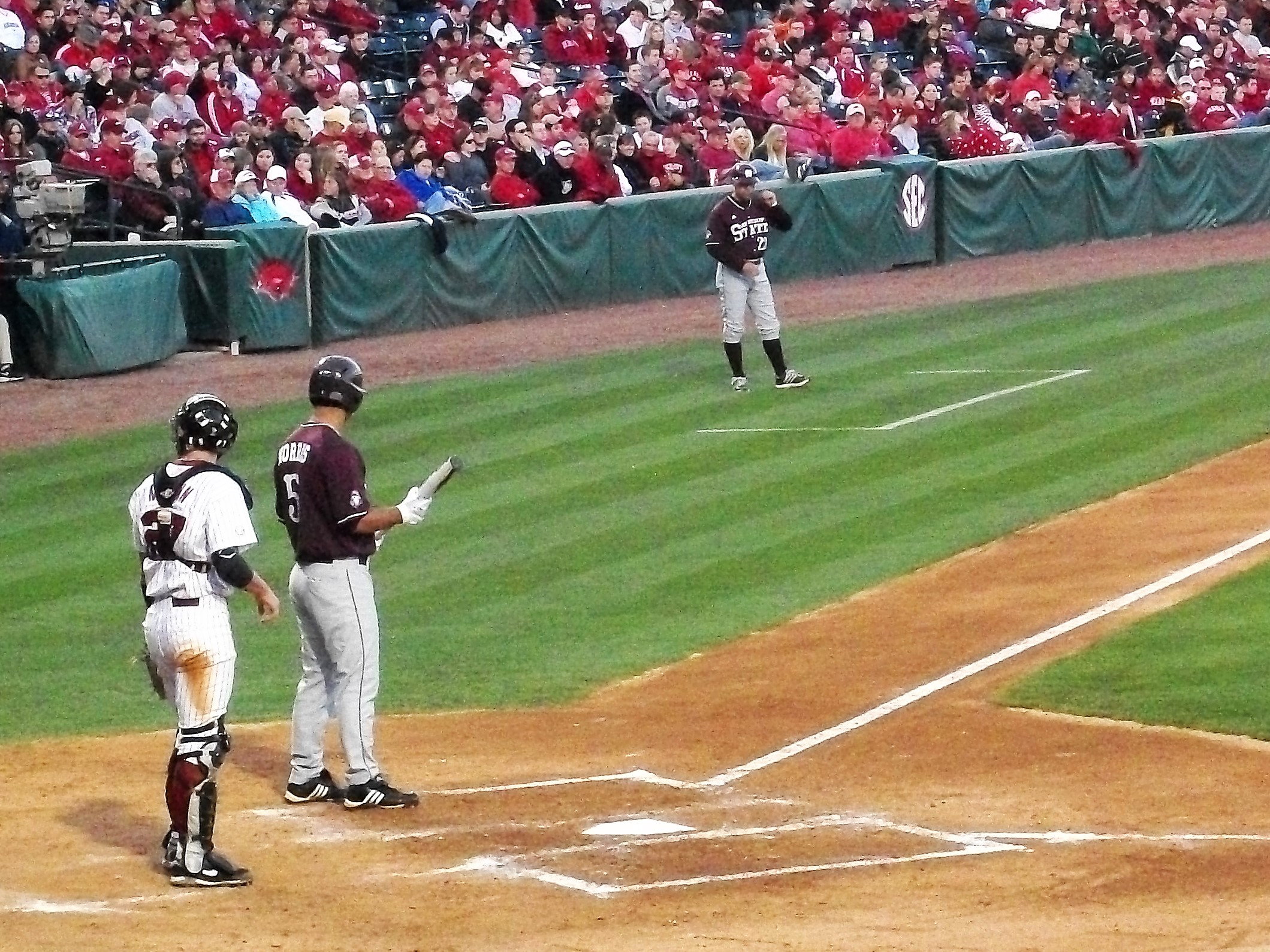 Mississippi State baseball player Daryl Norris gets signs from the coach as Arkansas Razorbacks catcher James McCann looks into the home dugout